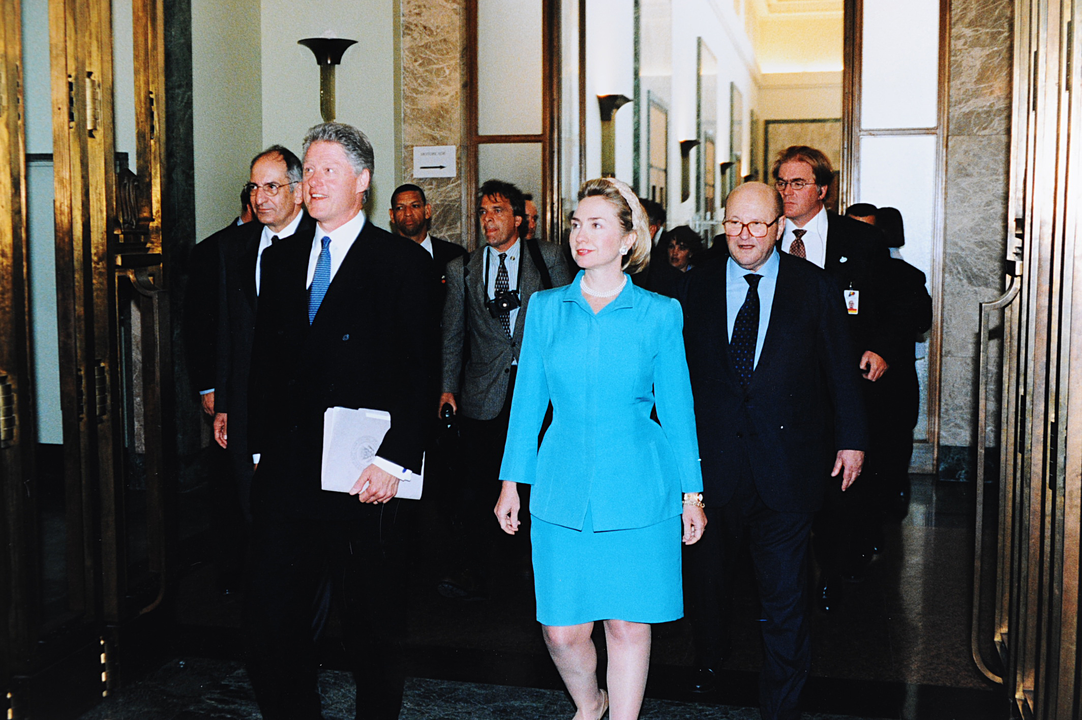 These photos may be reproduced provided attribution is given to the WTO and the WTO is informed. Photos: © WTO